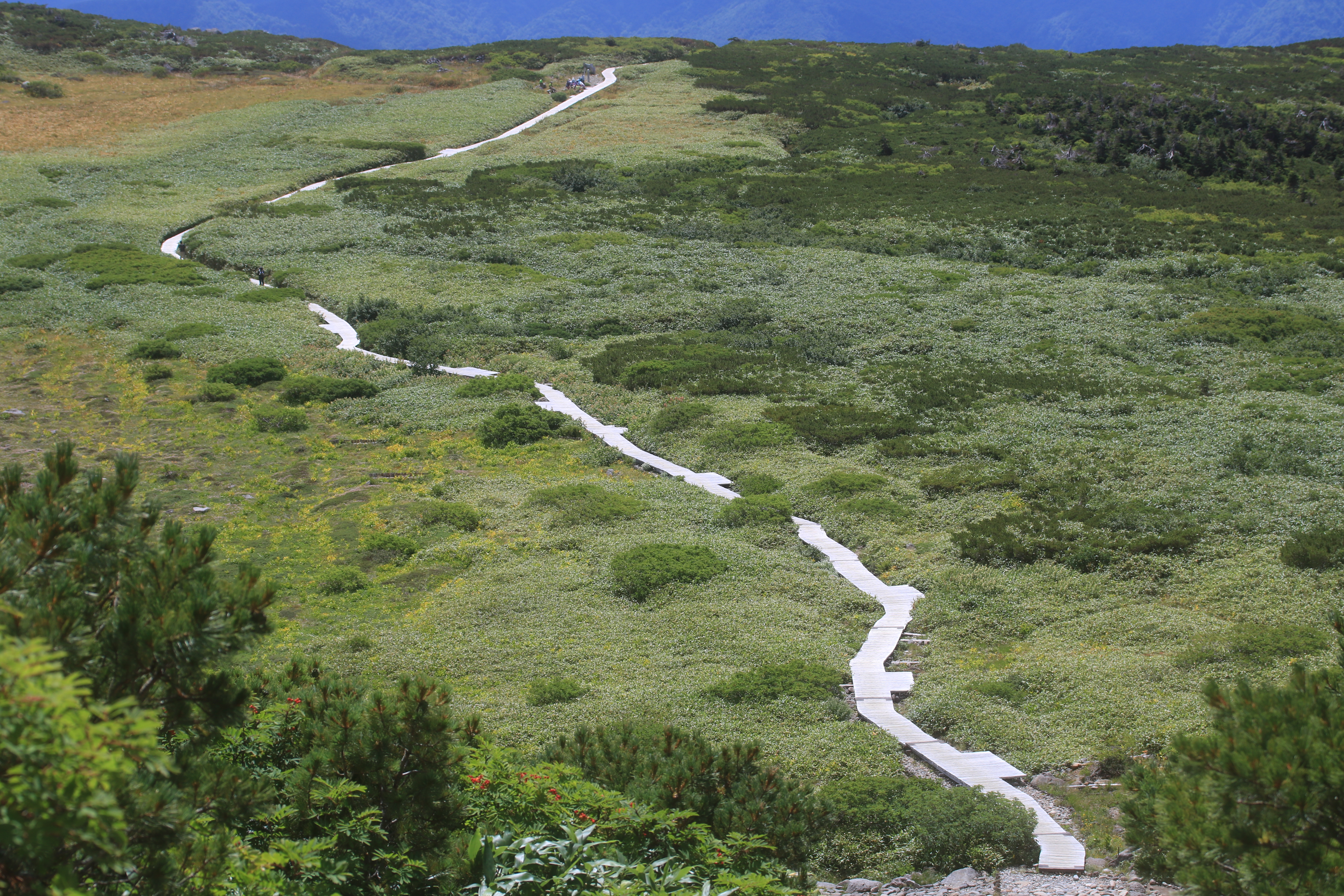 Boardwalk in Midagahara (Mount Haku), Shiarmine, Hakusan, Ishikawa, Prefecture, Japan.